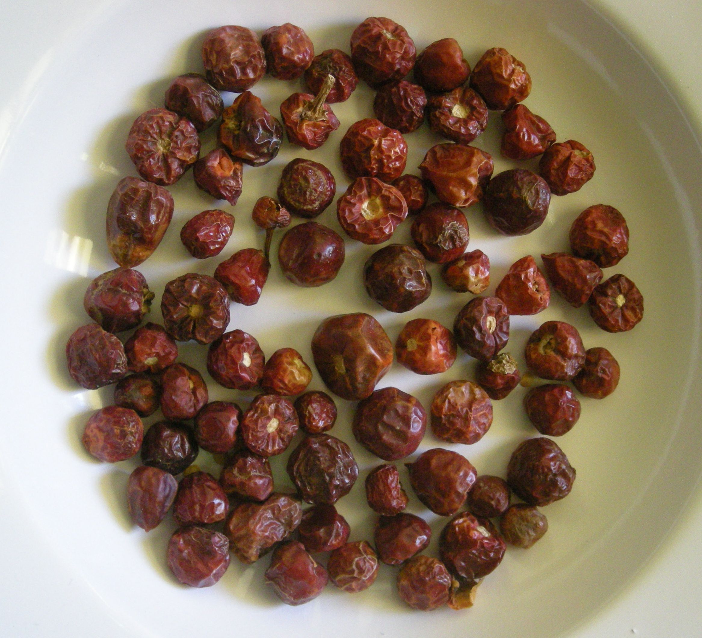 Dried dundicut peppers in a bowl.